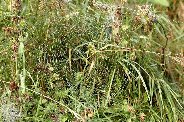 Araneus.quadratus web, from Commanster, Belgian High Ardennes .